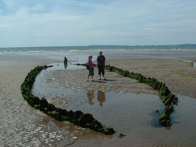 Wreckage of boat on Marros Sands.